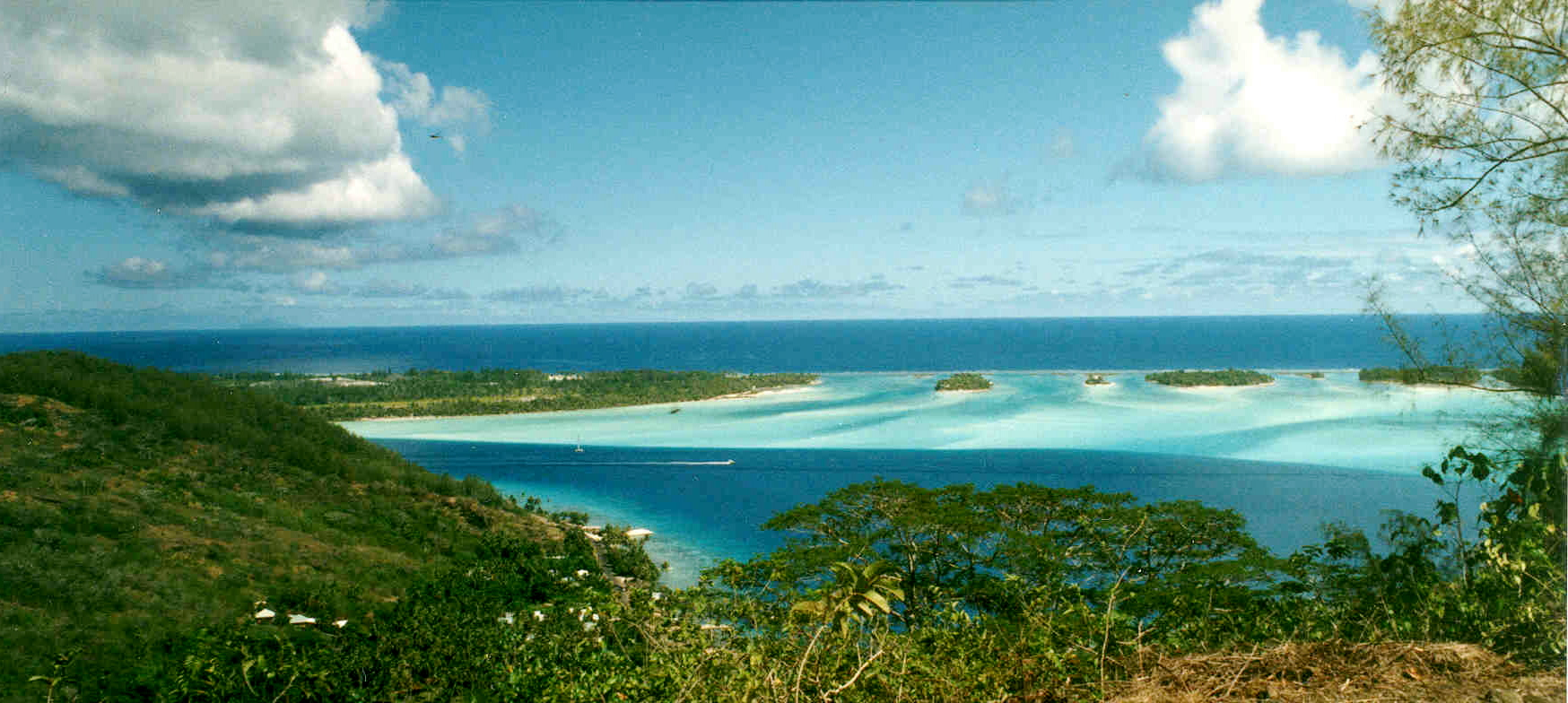 Bora-Bora Lagoon - French Polynesia.